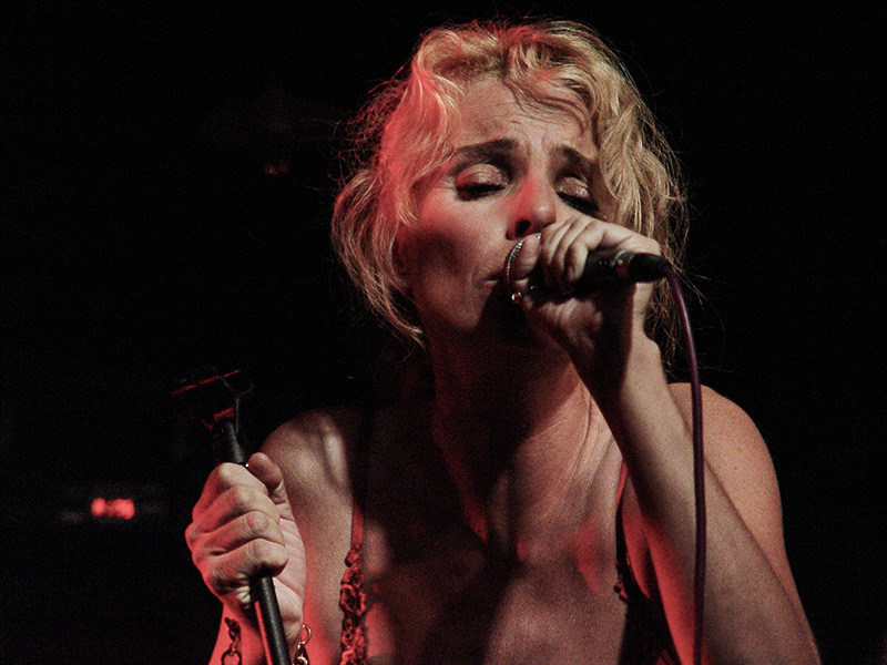 NannaLüders, Musketer Festival i Aarhus